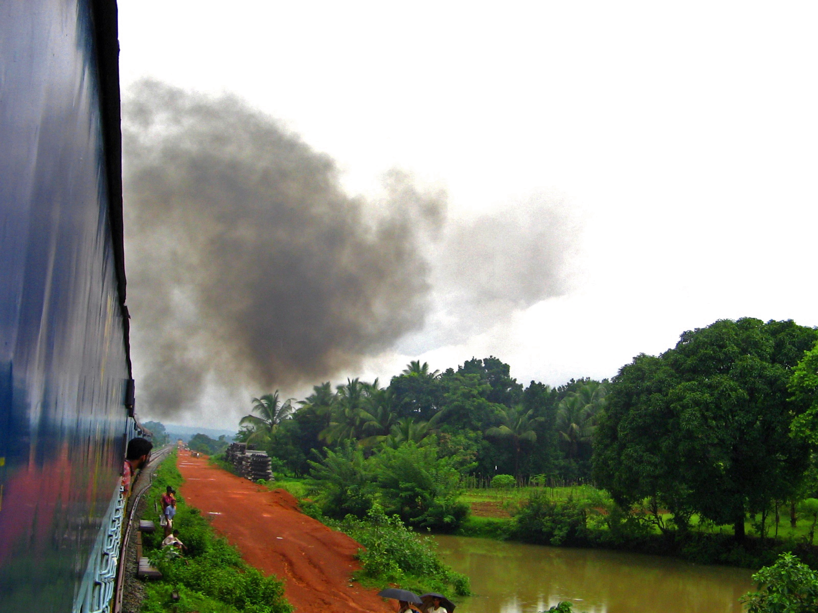 View from an evening train passing through Pallipuram.